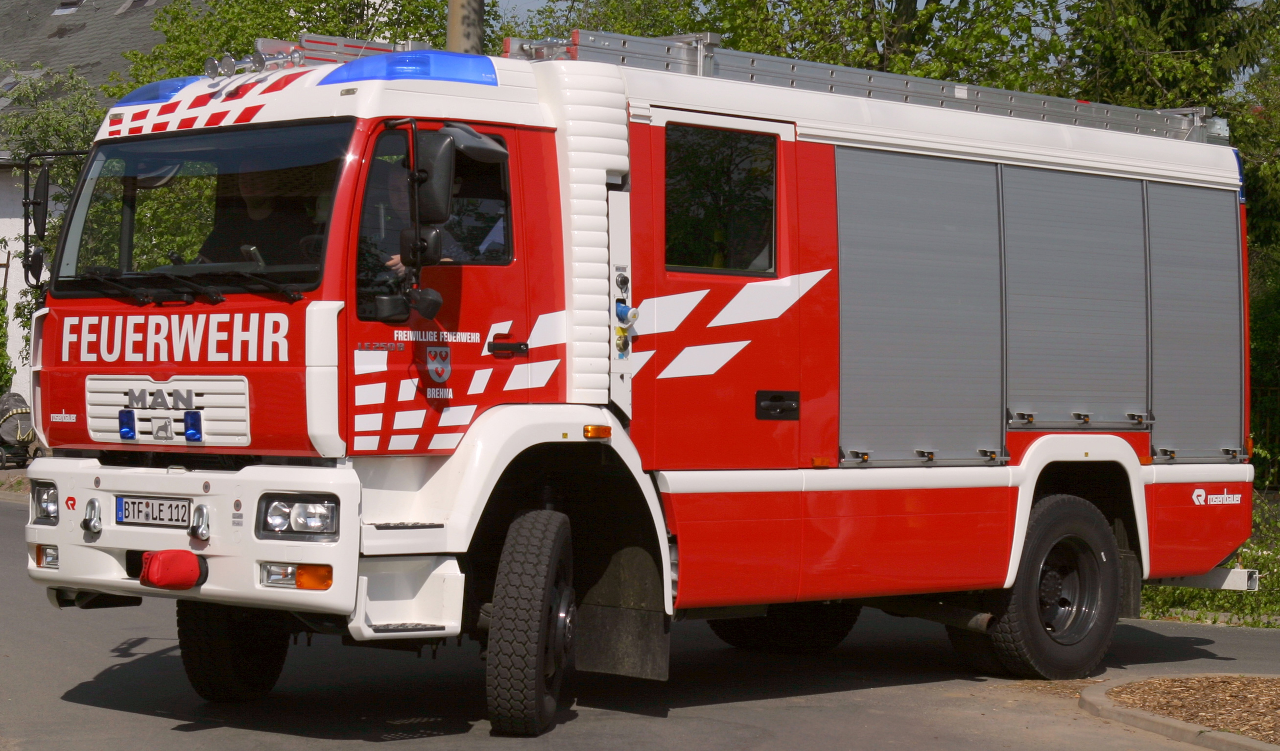 A LF 16/12 (Fire Engine (Löschgruppenfahrzeug), 1600 litres/min , 1200 litres of water on board), owned by the Freiwillige Feuerwehr (Voluntary Fire Brigade) of the town Brehna in Sachsen-Anhalt, Germany. The truck itself is made by MAN, the build-up was fabricated by Rosenbauer. Niemberg, Germany.